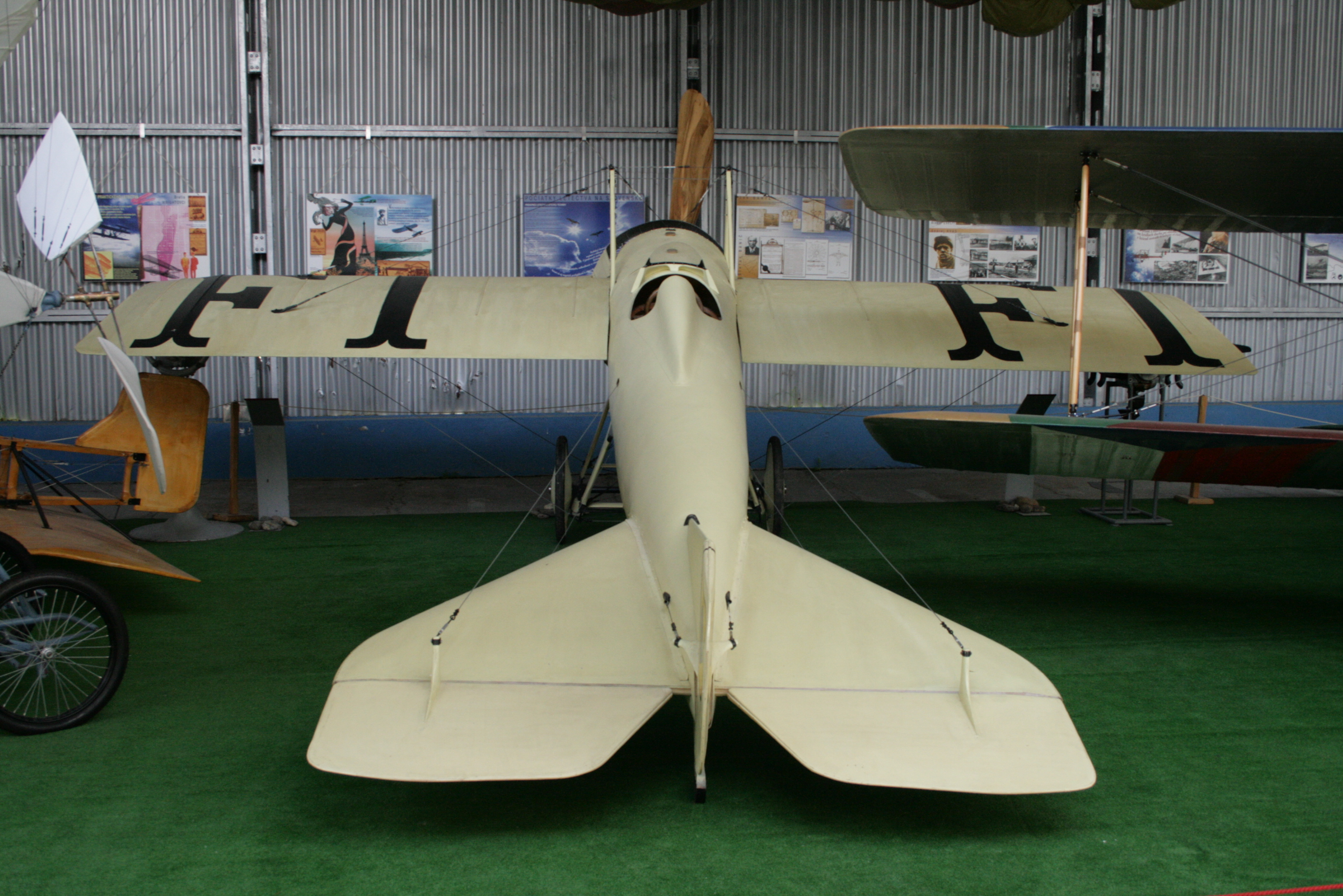 Deperdussin Monocoque.